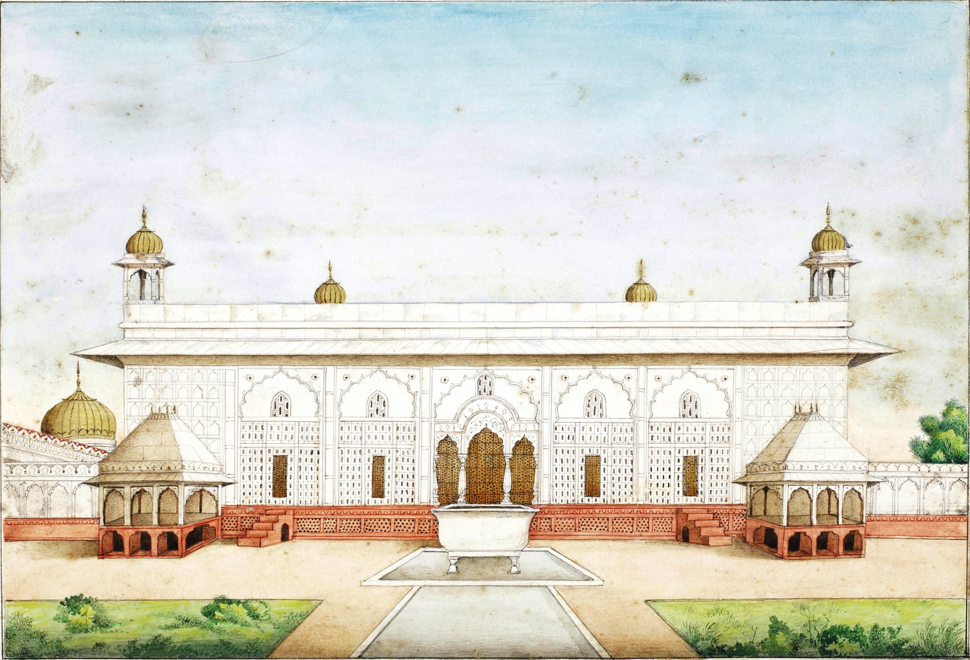 The Rung Muhul. The Rang Mahal inside the Red Fort. A series of 31 paintings by Ghulam Ali Khan (fl. 1817-55), consisting of views of monuments in and around Delhi, and including four portraits of the last Mughal Emperor Bahadur Shah II (reg. 1837-58) and his sons. Watercolour and gold on paper, black margin rules, three title pages, three sheets of portraits, all with identifying inscriptions in English and in Persian in nasta'liq script in black ink, the portraits with further inscriptions in nasta'liq script with the date November 1852 (Christian date written in Arabic), in later mounts, loose in contemporary green leather-covered despatch box, the lid embossed in gold DELHEE 1854. Size paintings 290 x 215 mm. and slightly smaller; mounts 318 x 394 mm.; box 435 x 365 x 110 mm.